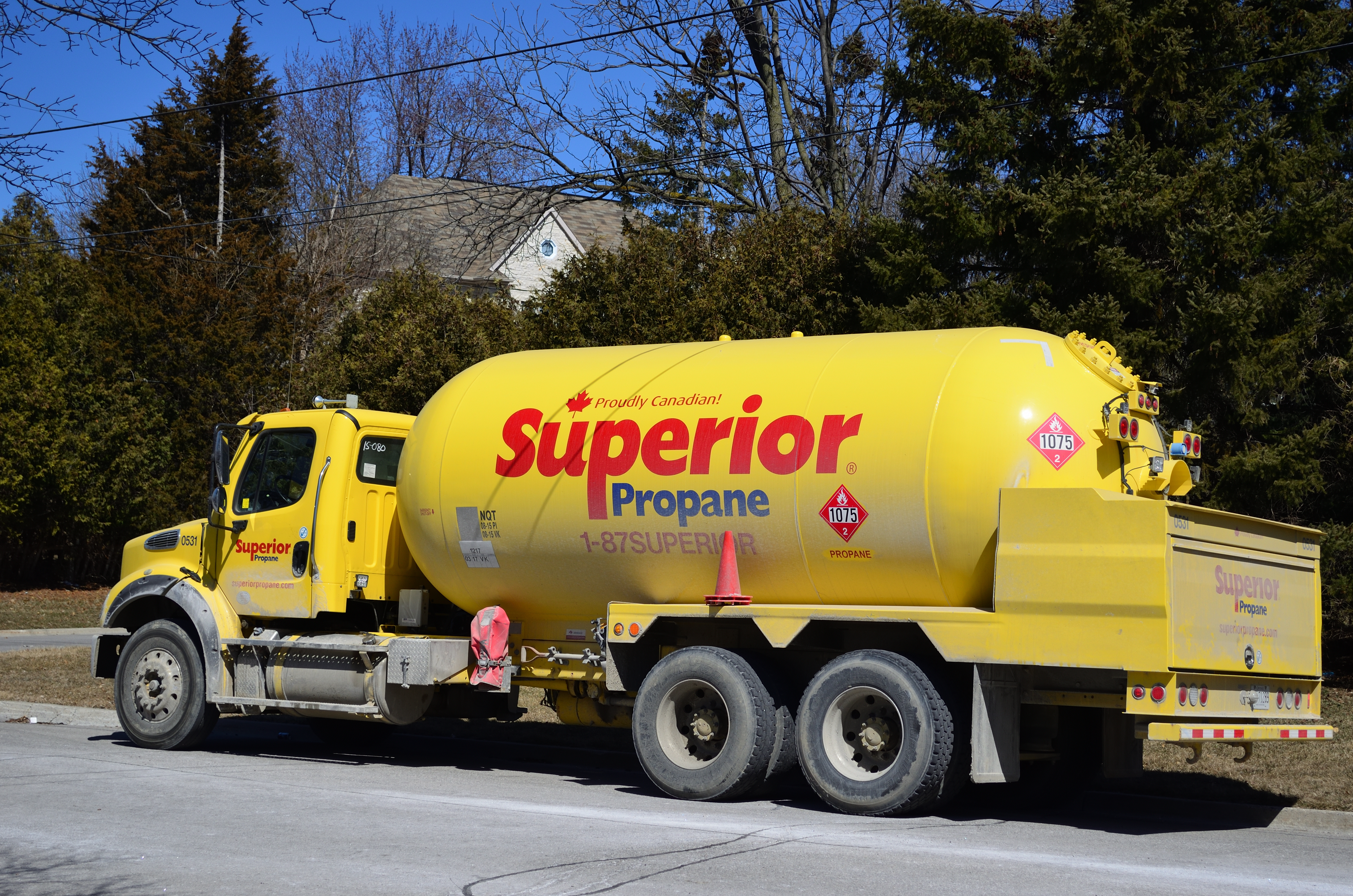 Propane truck